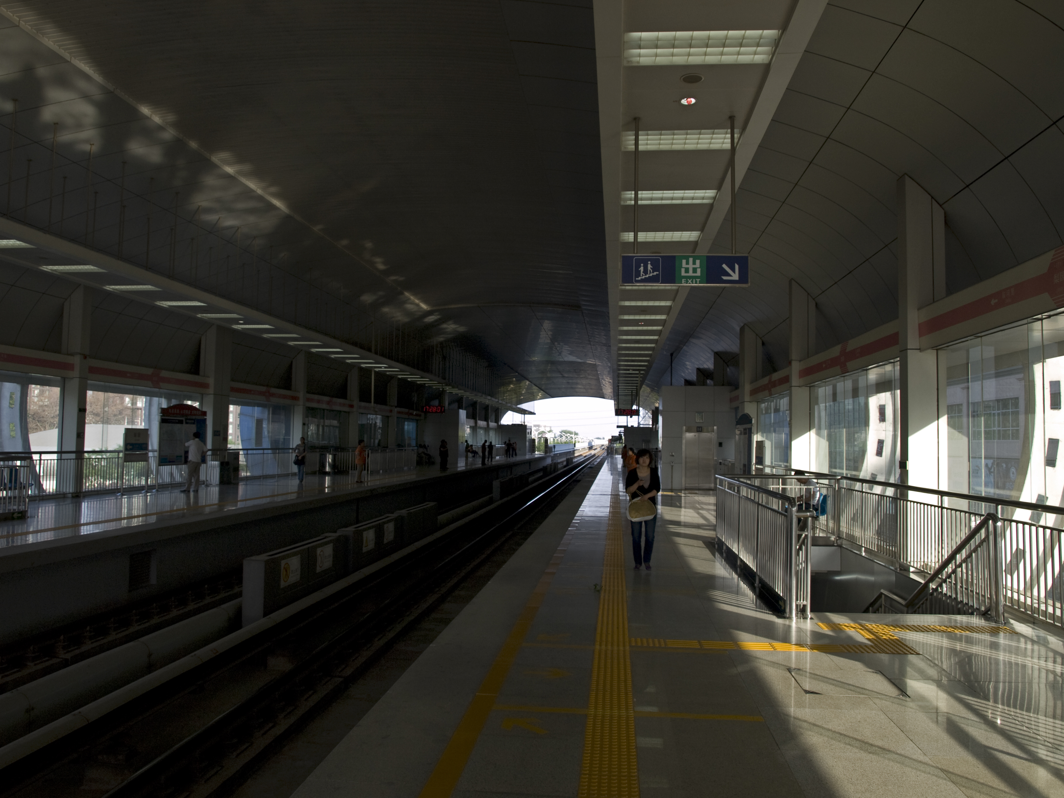 Liyuan station, Beijing Subway